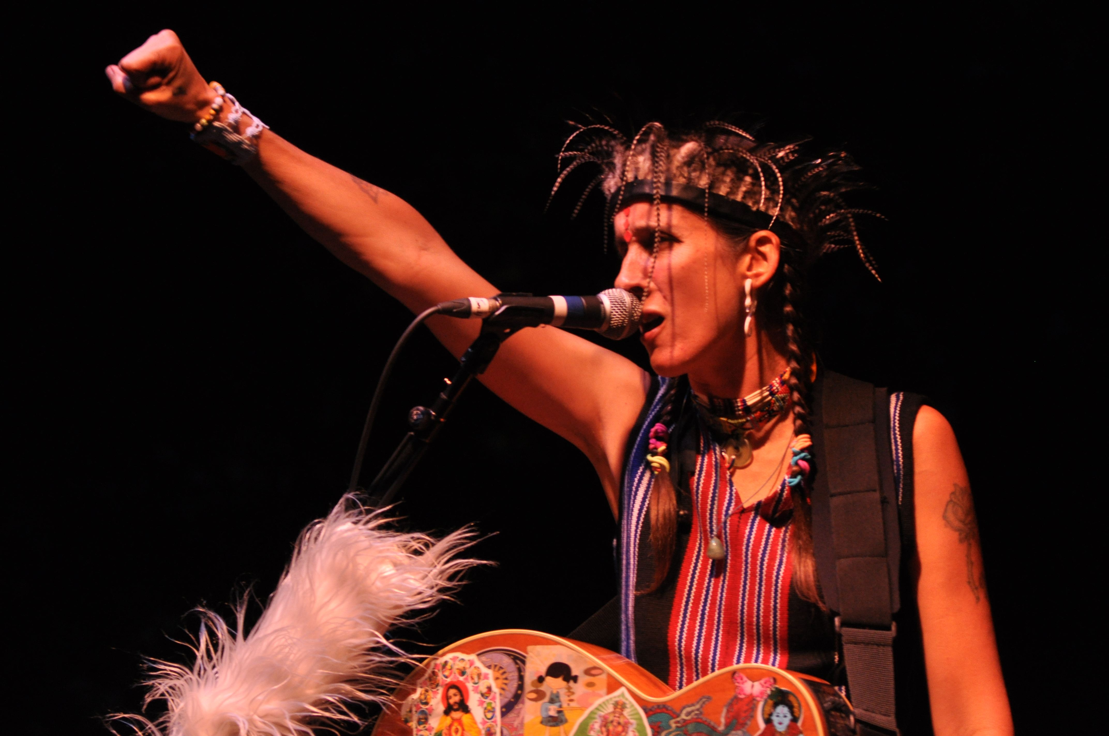 Andrea Echeverri performing with her band Aterciopelados at Bumbershoot, Seattle Center, Seattle, Washington.